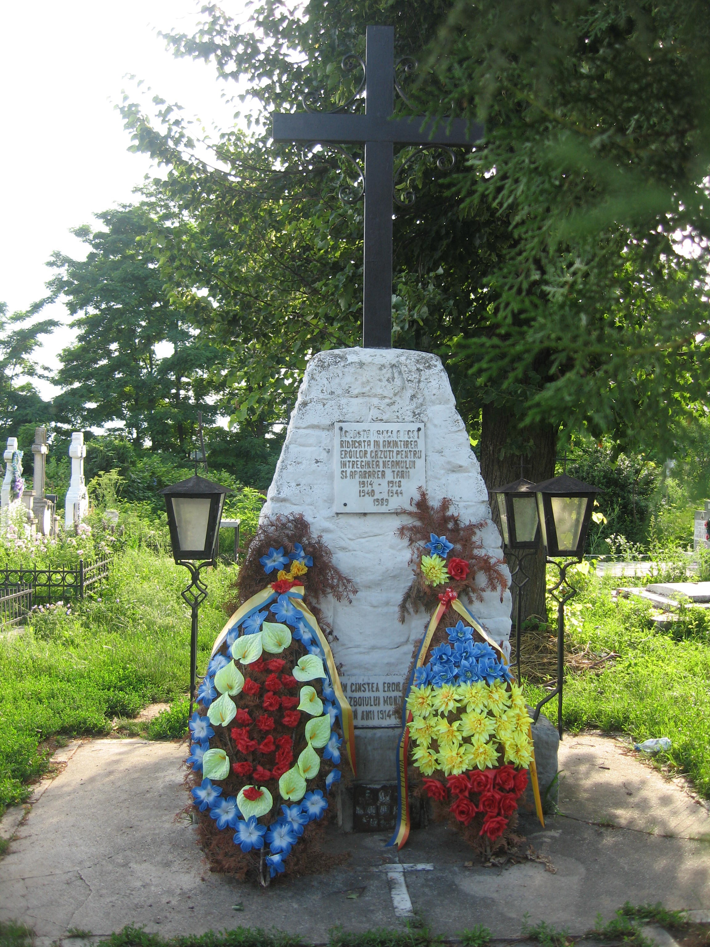 Heroes Monument in Iţcani, Suceava.